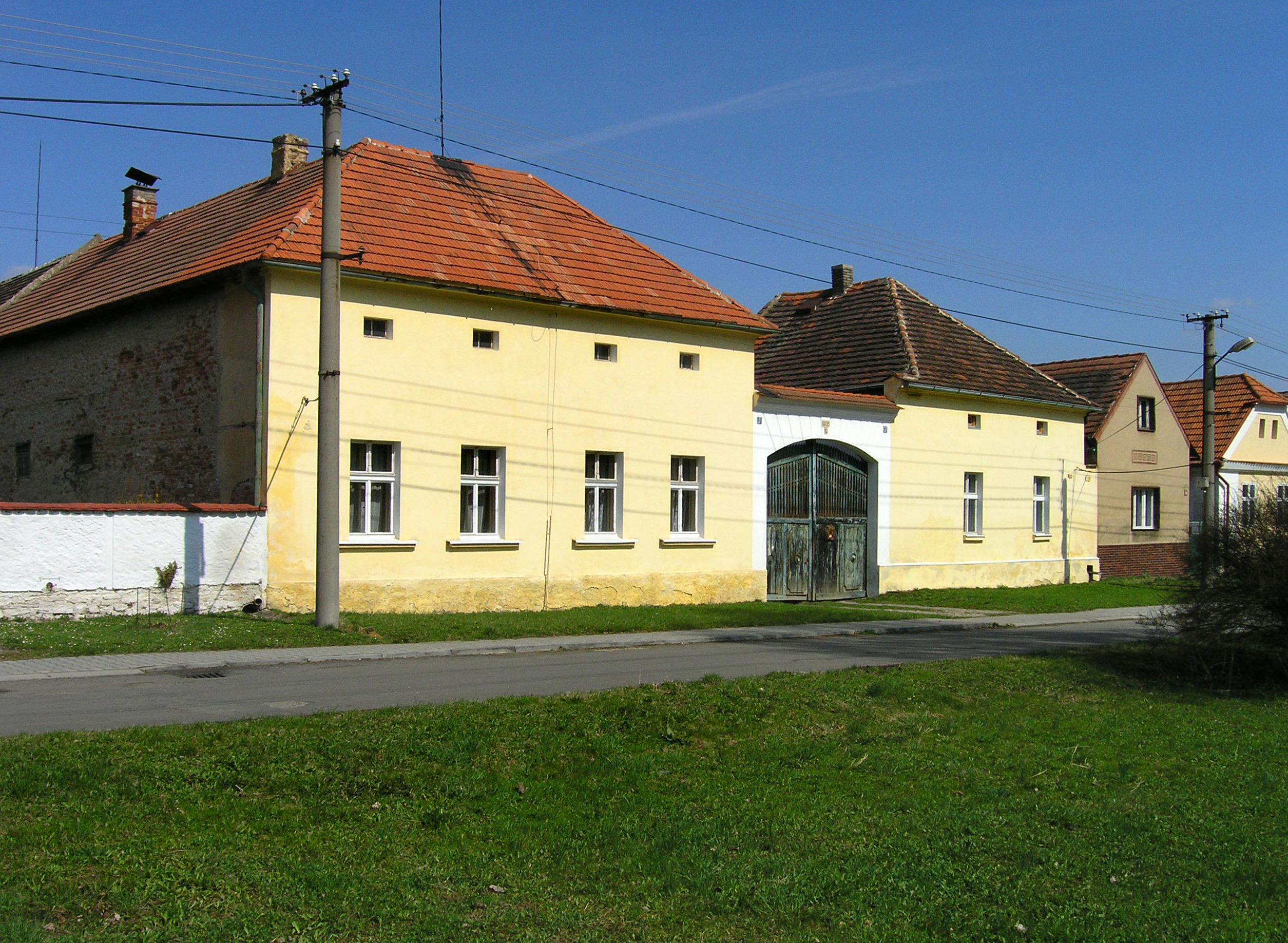 Common in Železná village, Czech Republic